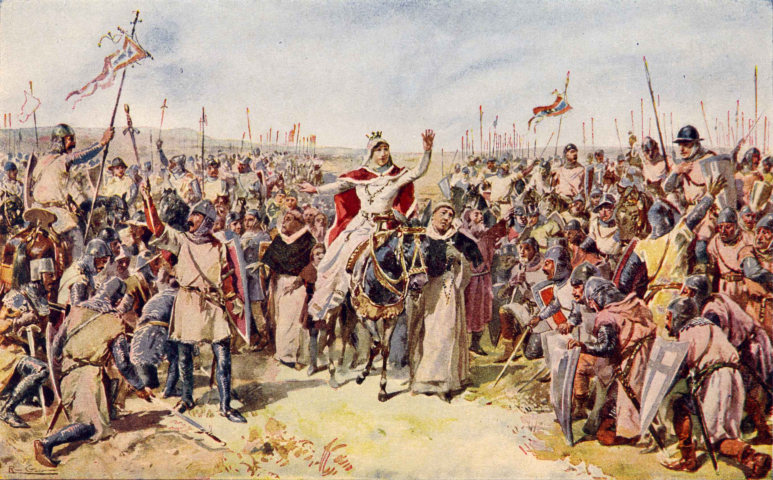 "Saint Elizabeth of Aragon in the Alvalade battlefield", by Roque Gameiro, in Quadros da História de Portugal ("Pictures of the History of Portugal", 1917).